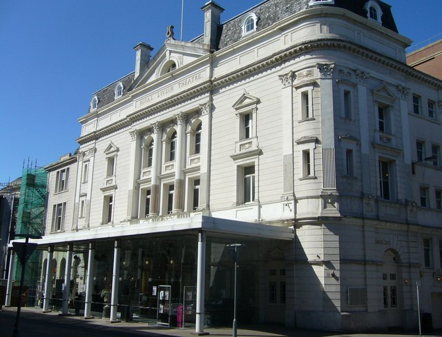 Royal Lyceum Theatre, Grindlay Street